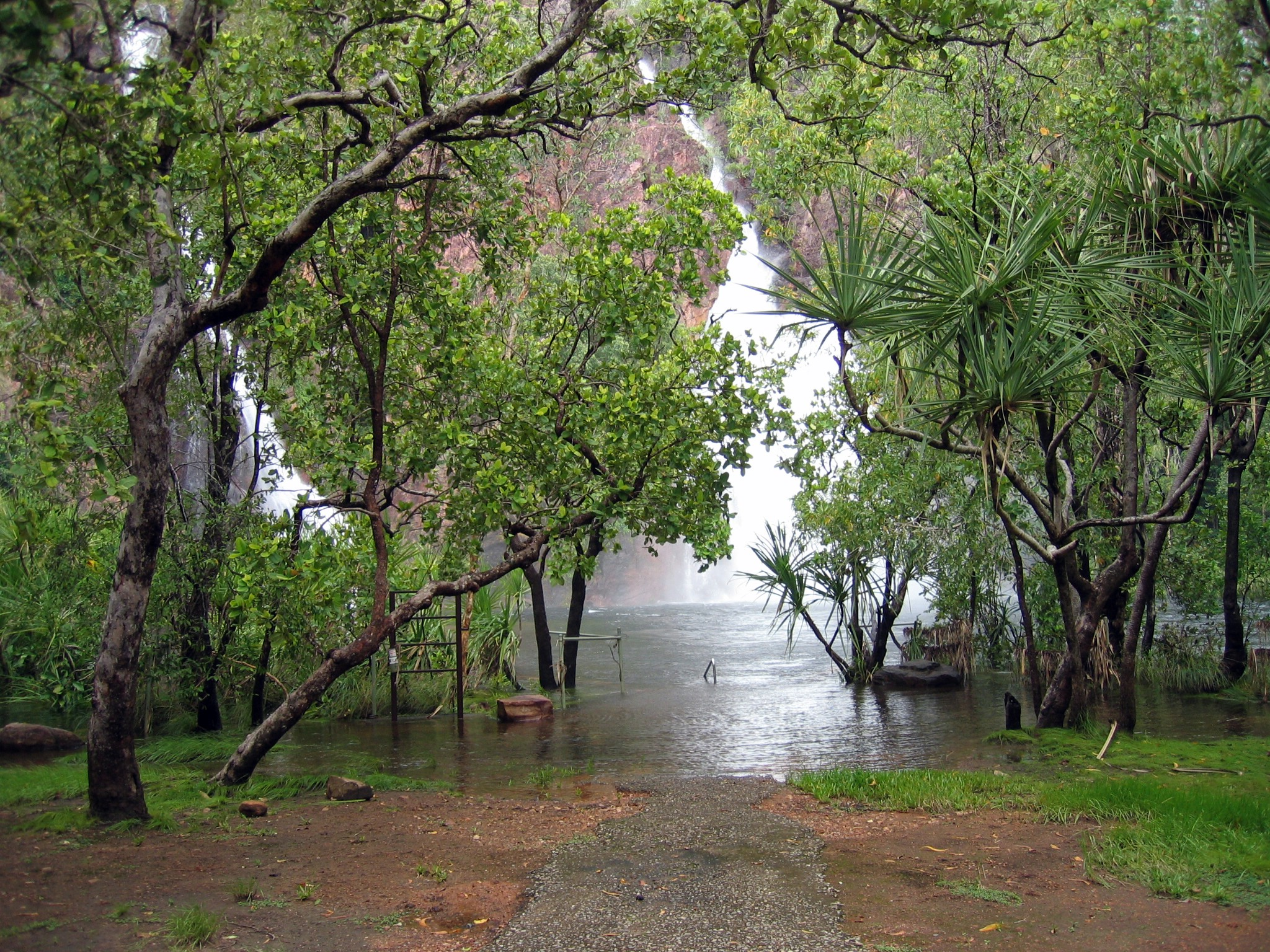 Litchfield National Park, NT, Australia.Darwin - Litchfield NP 031